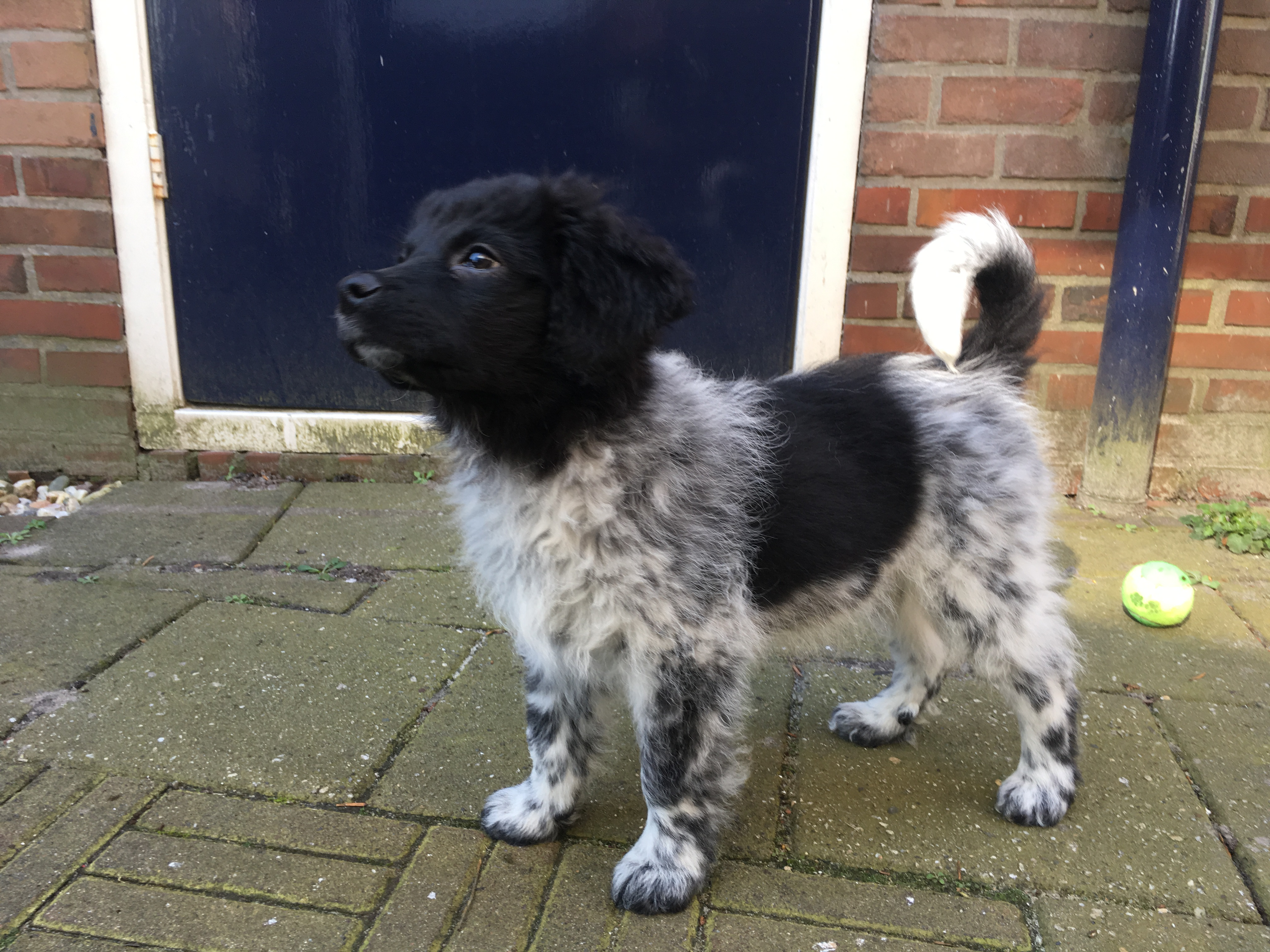 A picture of a stabyhoun wetterhoun pup for the stabyhoun wiki page.